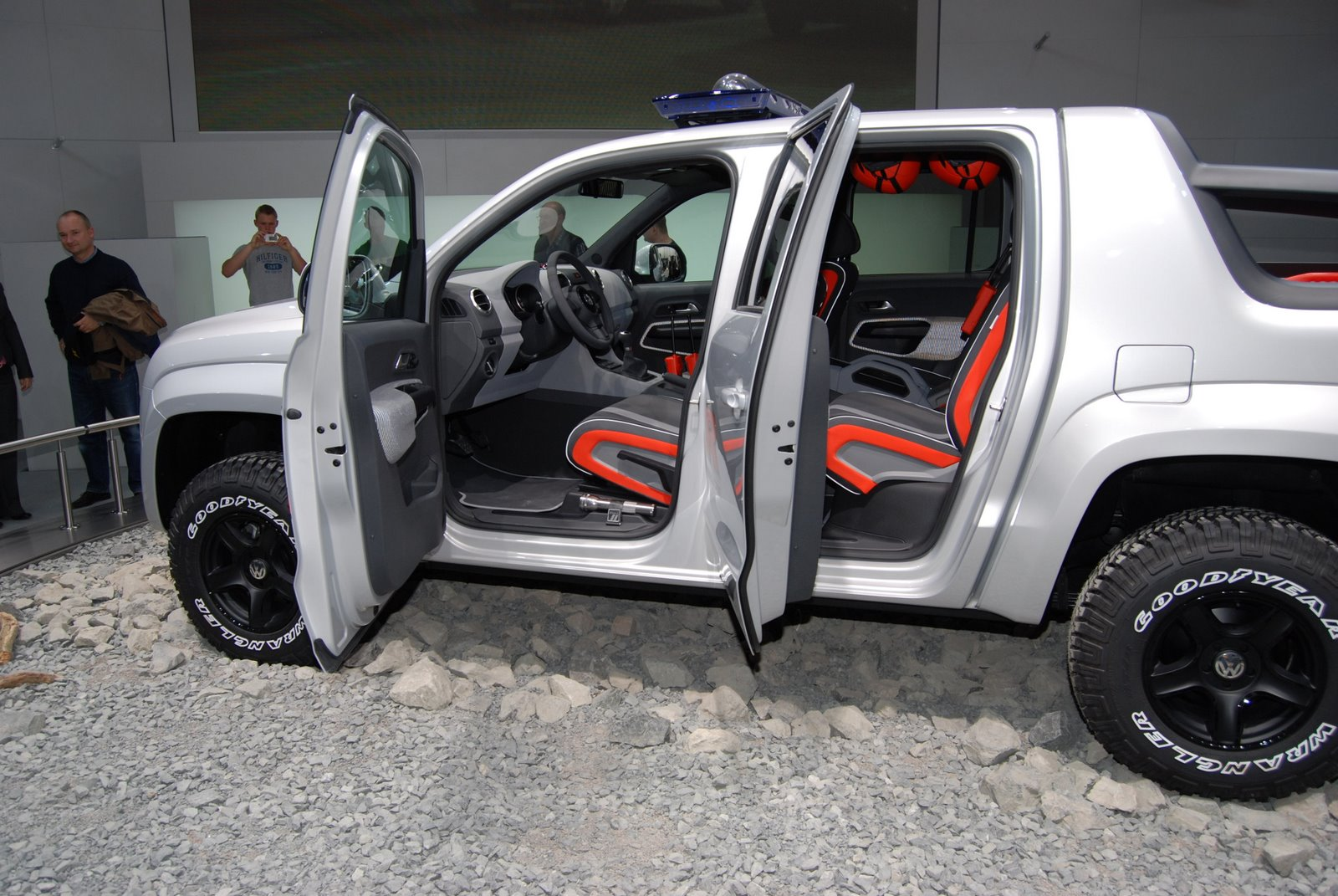 Volkswagen VWN817 VW Robust Pickup.